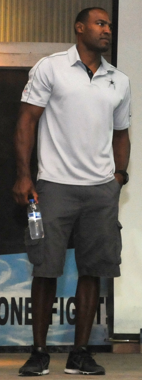 120905-F-US105-005 SOUTHWEST ASIA -- Darren Woodson, National Football League alumnus, answer questions from 380th Air Expeditionary Wing members during visit here Sept. 5, 2012. Four Washington Redskins cheerleaders and four NFL alumni visited the wing Sept. 5 and 6 during an Armed Forces Entertainment tour. (Note the EXIF date of 2012-01-19 is likely incorrect.)